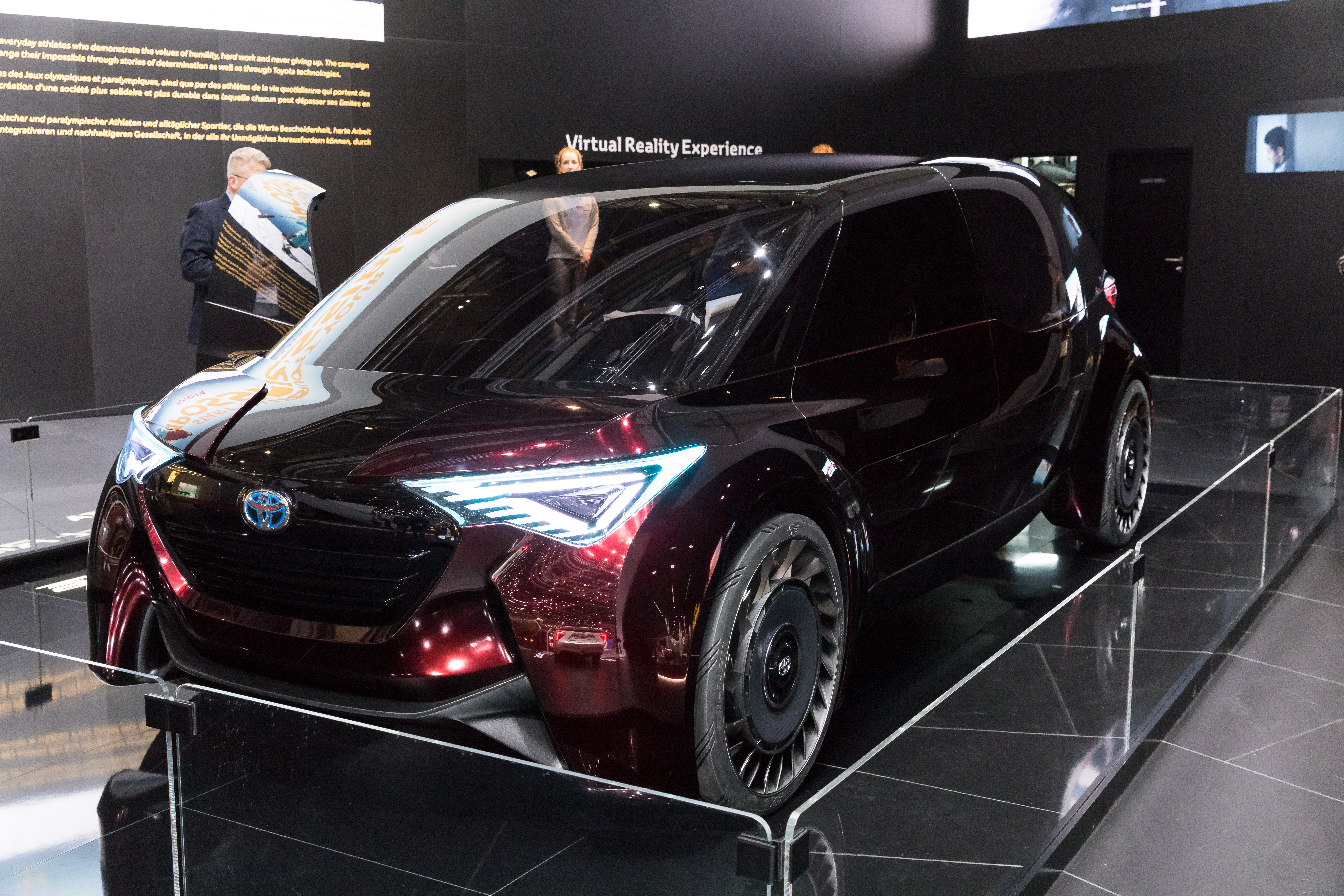 Geneva International Motor Show 2018